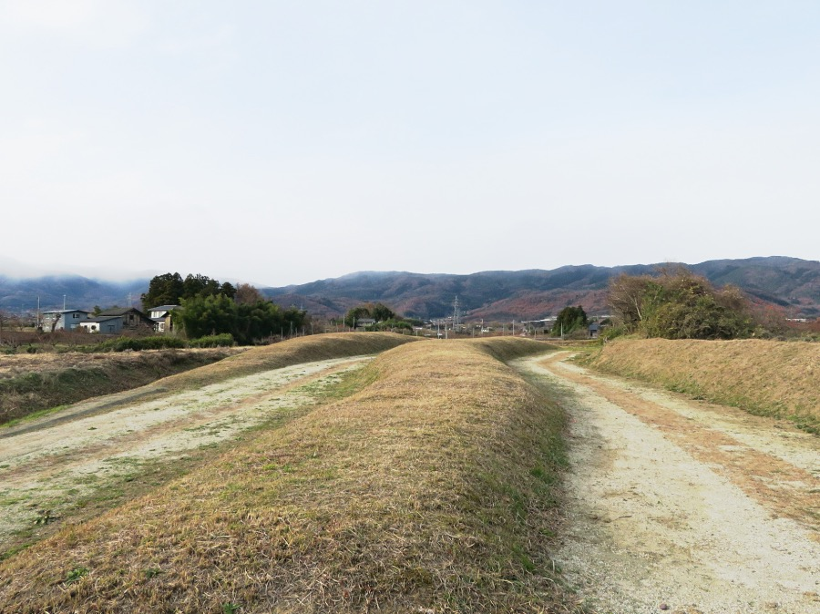 Atsukashiyama Embankment ruins in the town of Kunimi, Fukushima Prefecture, Japan